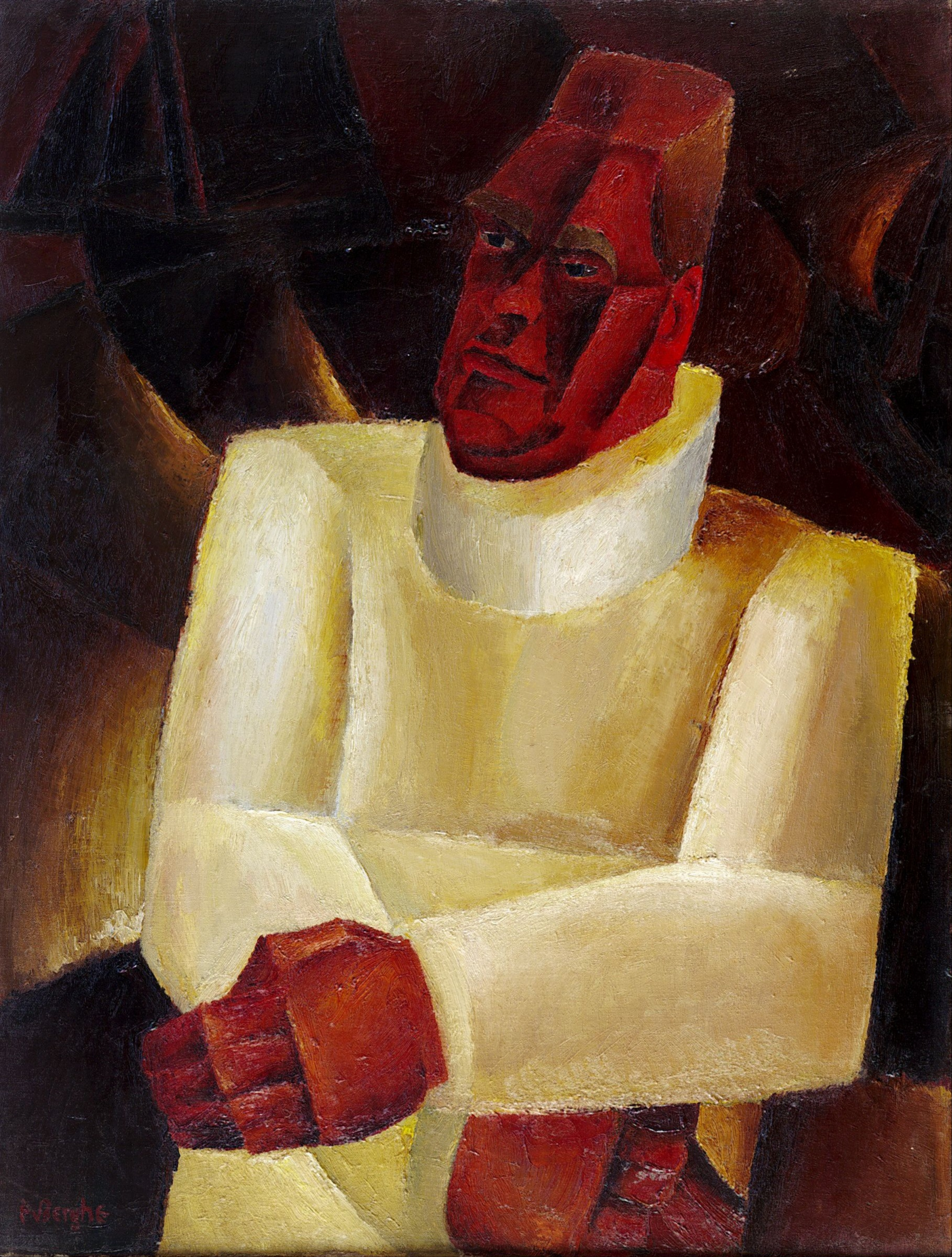 Portrait of the sculptor Constant Permeke